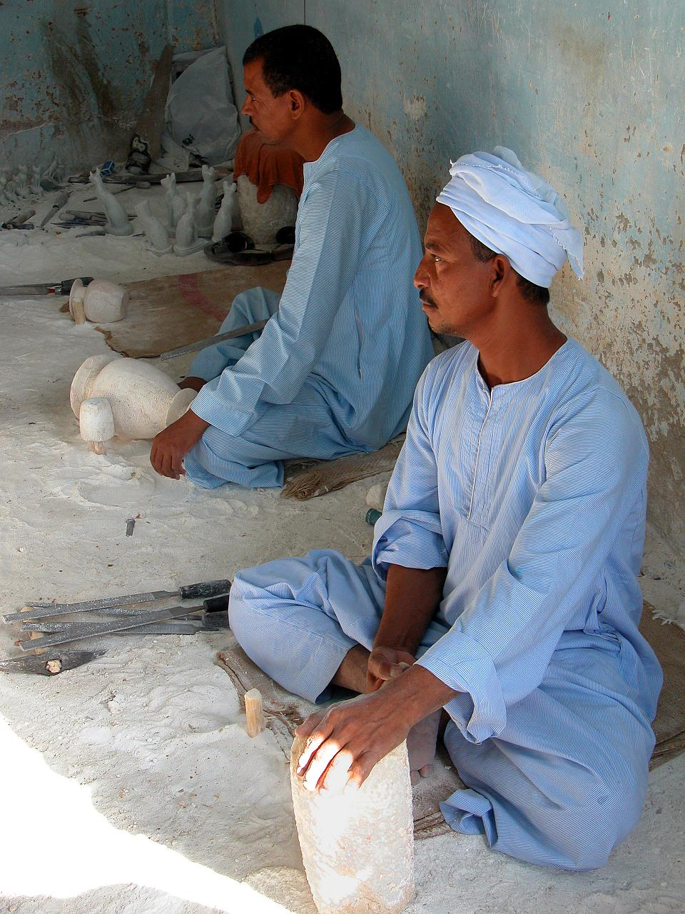 Two workers making the jars outside the Alabaster Factory . Valley of the Kings, Egypt